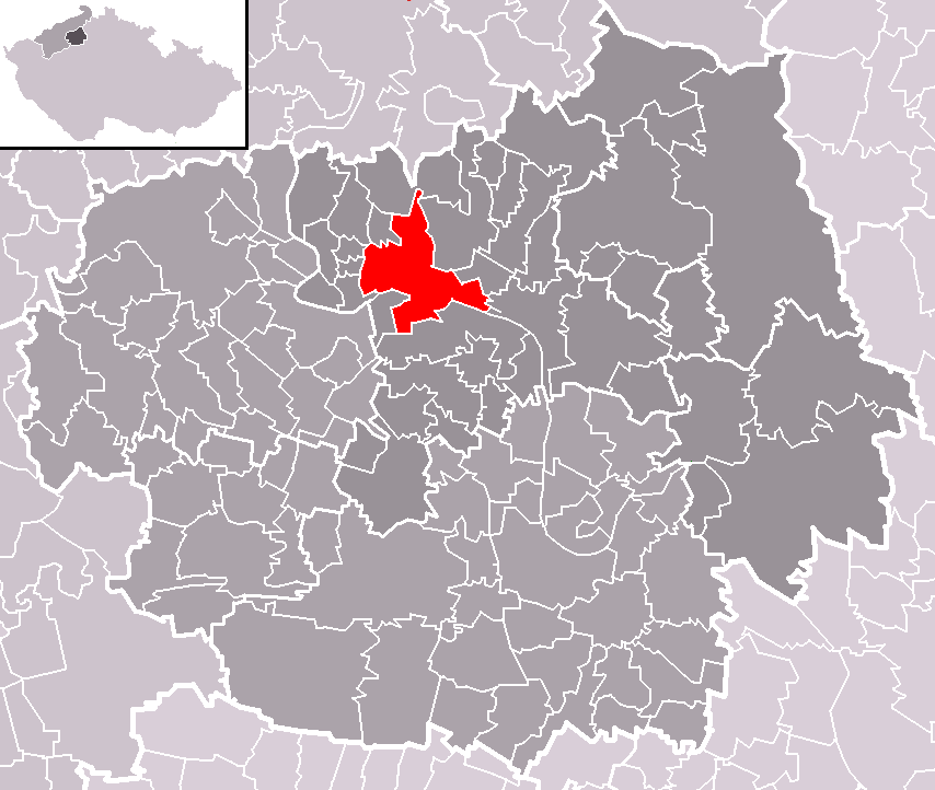 Location of Litoměřice town within Litoměřice District and administrative area of Litoměřice as a Municipality with Extended Competence.